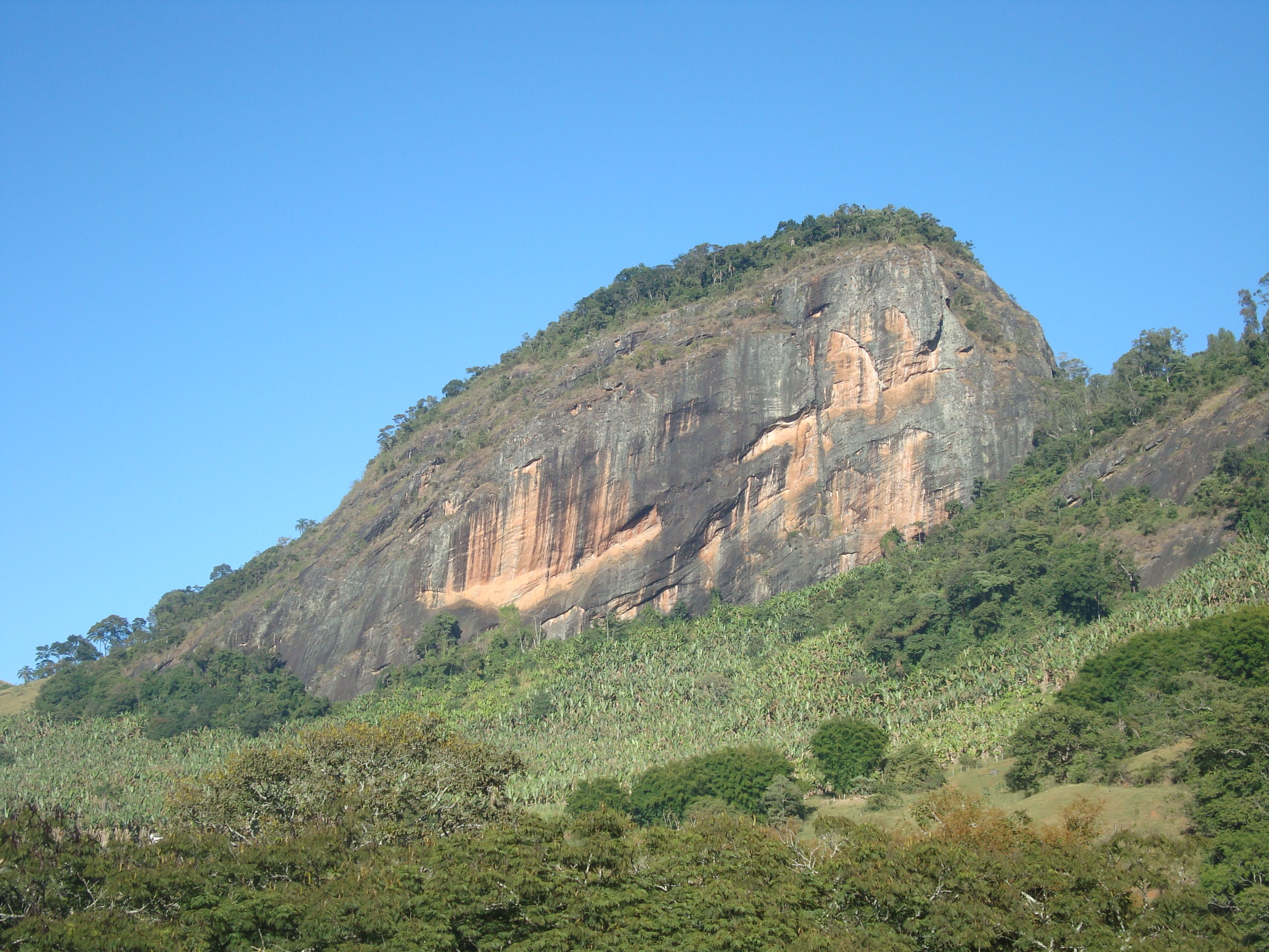 Red Rock Mountain in Piranguçu, Minas Gerais, Brazil